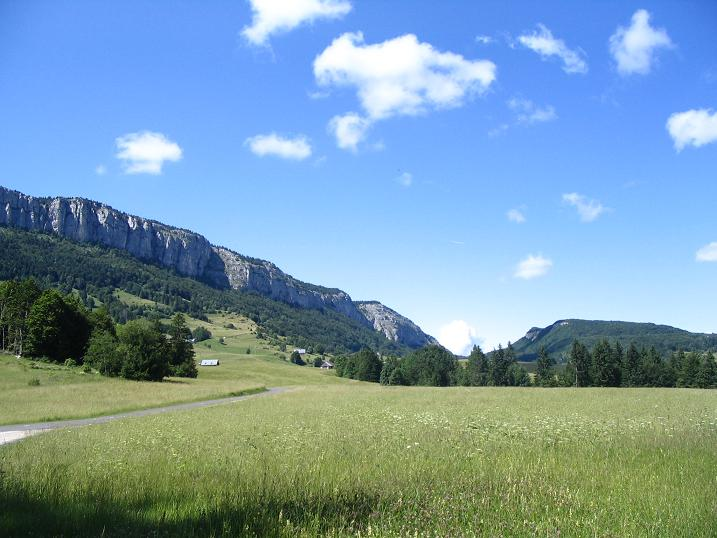 View from Col de Cluse - Chartreuse, ltr: Mont Outheran (1676m), Col du Mollard (1320m) and Mont Pellat ou la Lentille (1443m).